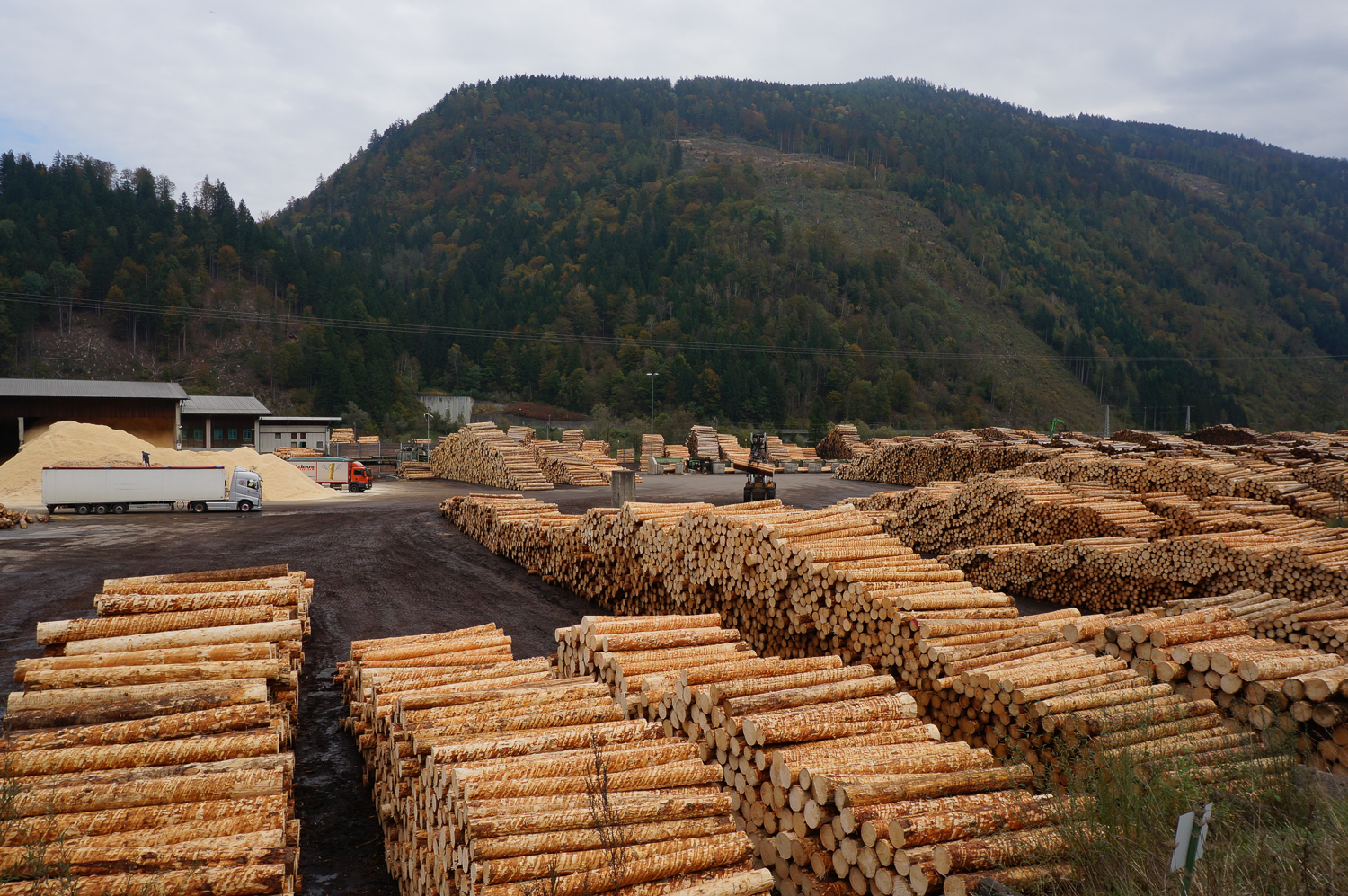 Saw industry storage place from municipality Sachsenburg, Kärnten, district Spittal Drava, Carinthia, Austria, European Union